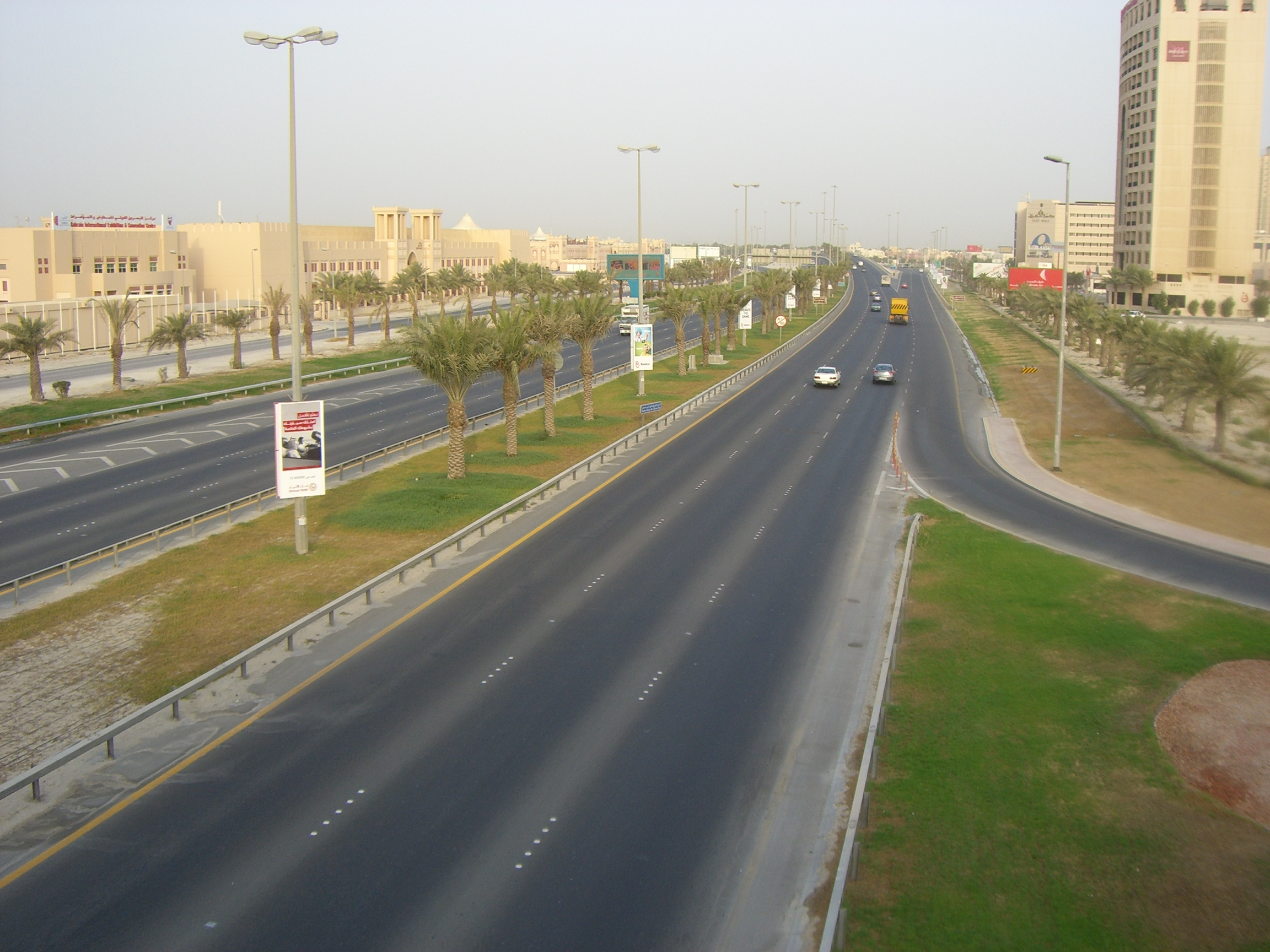 This is an example of a trunk highway in Bahrain, as used in